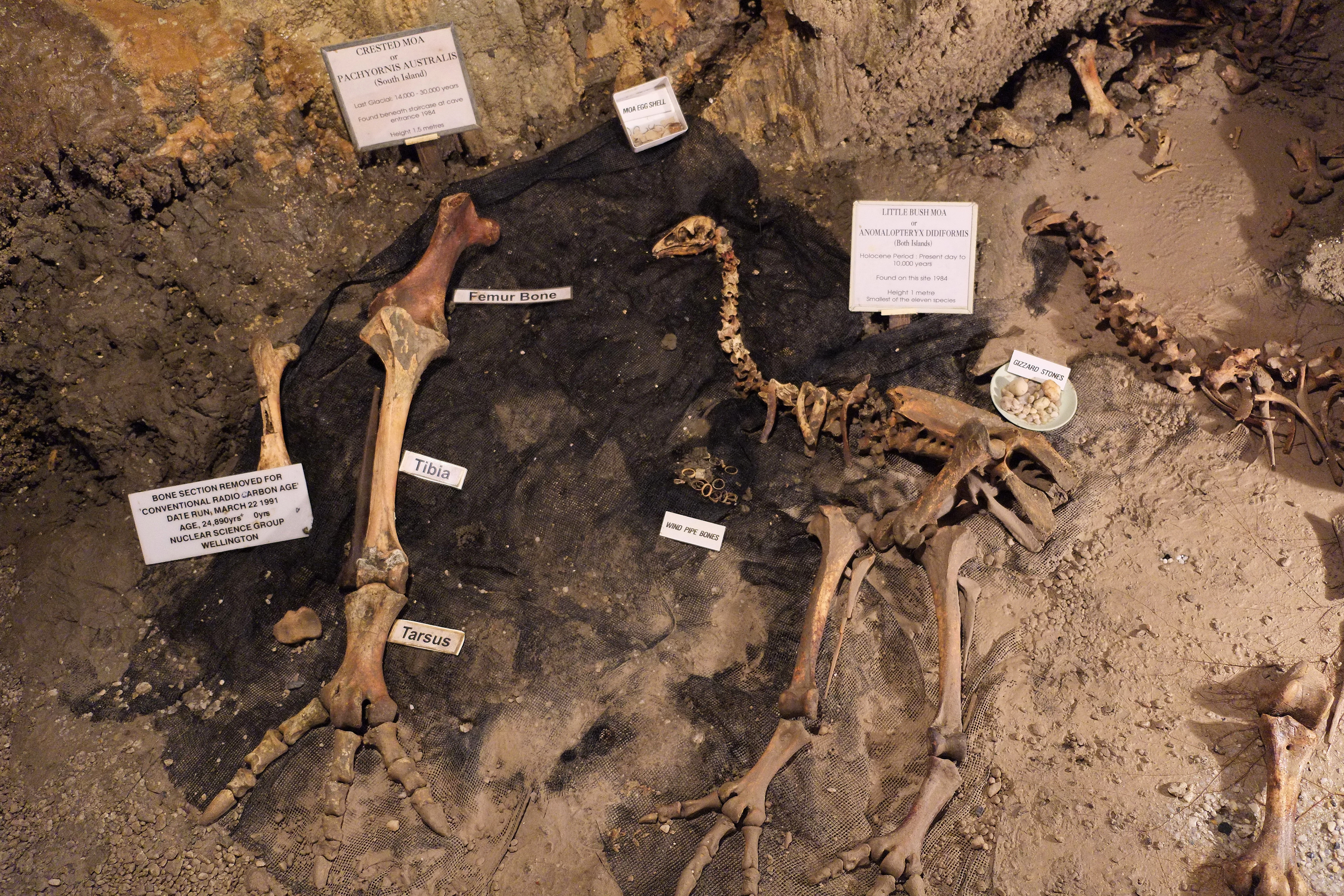 Moa bones in Ngarua Caves